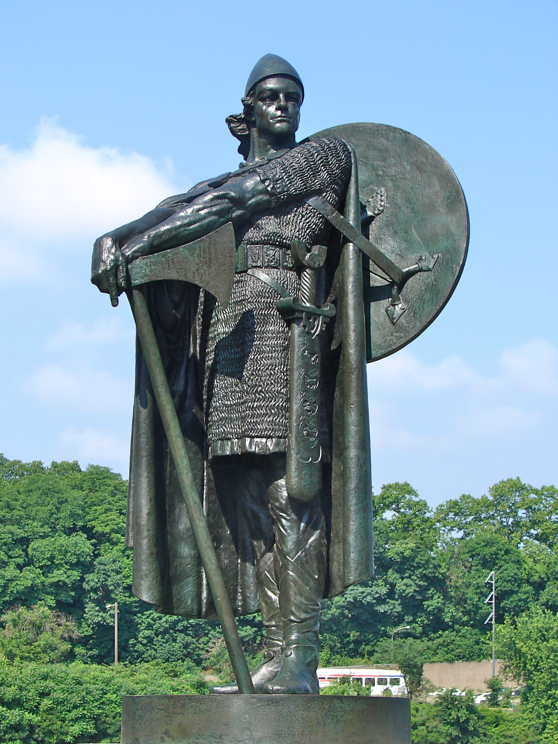 Thorfinn Karlsefni, an Icelandic explorer who circa 1010 AD led an attempt to settle Vínland with three ships and 160 settlers. Thorfinn's wife gave birth to a boy in Vínland, the first child of European descent known to have been born in the New World. In 1918, Einar Jónsson, an Icelandic sculptor, created a statue of Thorfinn Karlsefni which was placed in Philadelphia, Pennsylvania, in Fairmount Park, along Kelly Drive, near the Boathouses. There is another casting of the statue in Reykjavik, Iceland.